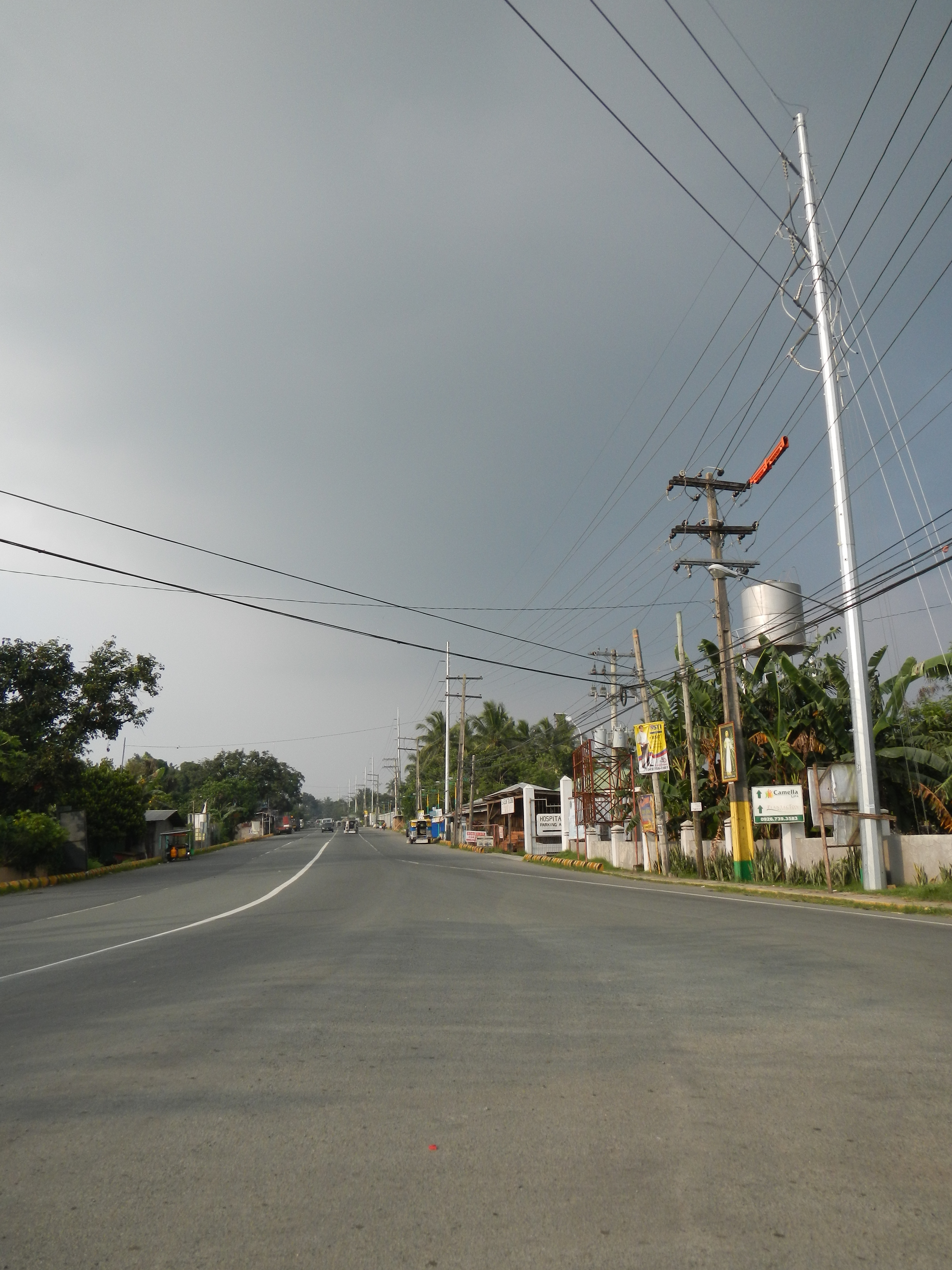 Upload Wizard photos of - San Jose District Hospital (SJDH) - Banay-Banay I, San Jose, Batangas[1] [2] Coordinates: 13°53'12"N 121°6'17"E [3] [4] List of hospitals in the Philippines[5] - San Jose, Batangas[6] [7] ZIP Code: 4227 (area: 53.29 km², established on April 26, 1765, a first class municipality in the province of Batangas, Philippines, latest census, a population of 61,307 people in 10,123 households politically subdivided into 33 barangays), C.J. Querube Makalintal Avenue.[8]